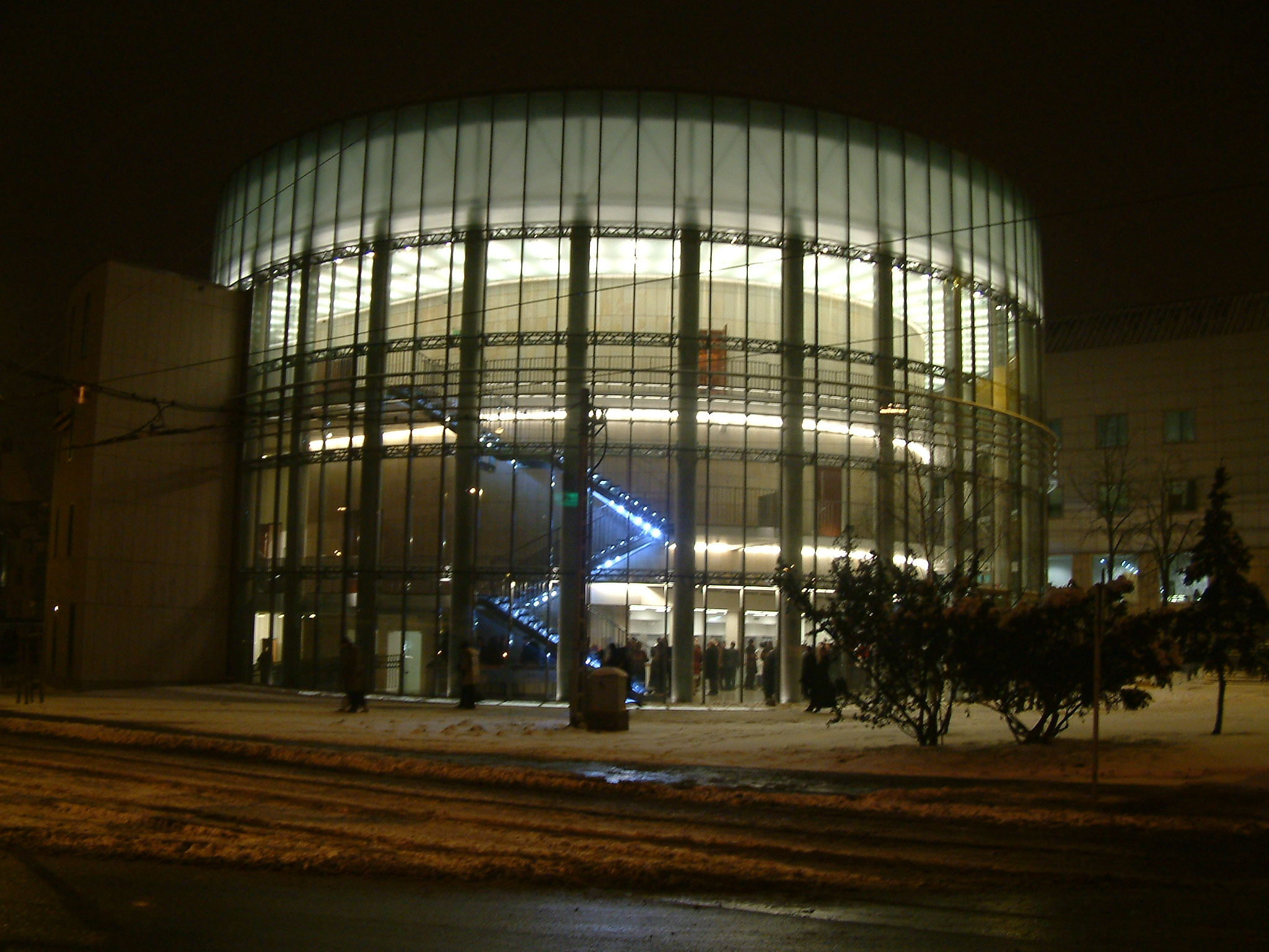 Academy of Music in Poznań, Aula Nova